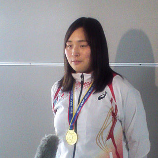 Haruka Kitaguchi, Gold Medalist, IAAF World Youth Championships, Cali 2015